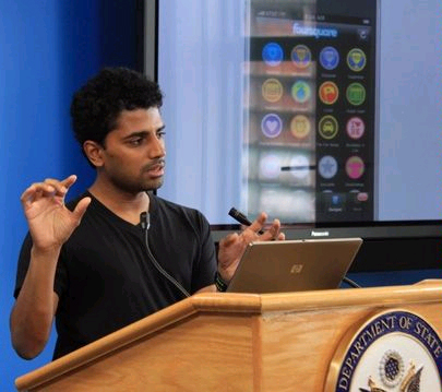 Naveen Selvadurai, co-founder of the social networking site Foursquare, delivering a briefing on "How Companies and Small Business are Using Social Media and Mobile Platforms to Bolster Business".